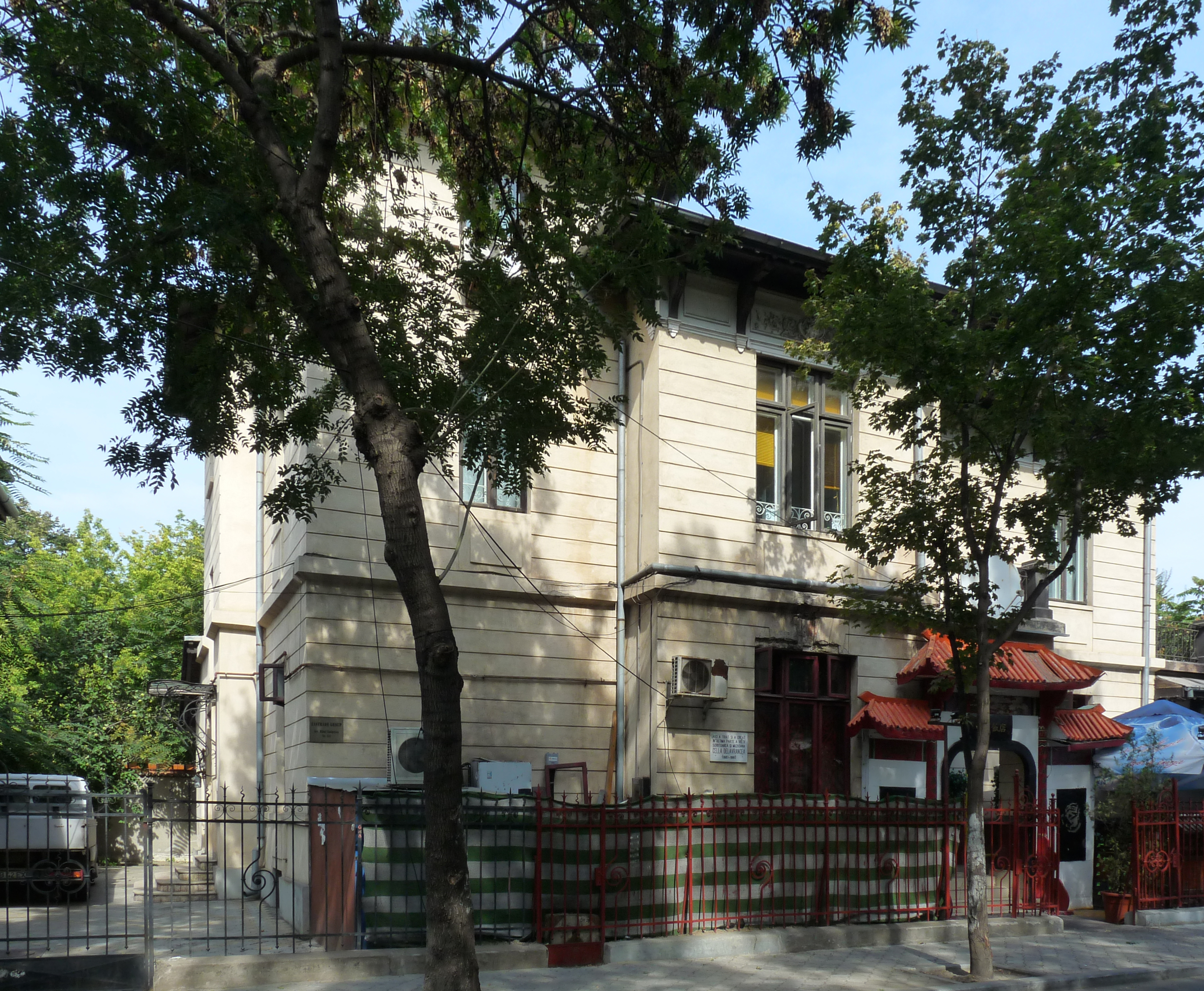 Henrieta Delavrancea-Gibory house in Eminescu street, Bucharest, RomaniaRomână: Casa Henrieta Delavrancea-Gibory din strada Mihai Eminescu, București, România